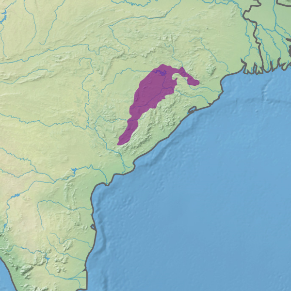 Ecoregion IM0208 - Northern dry deciduous forests (in purple)